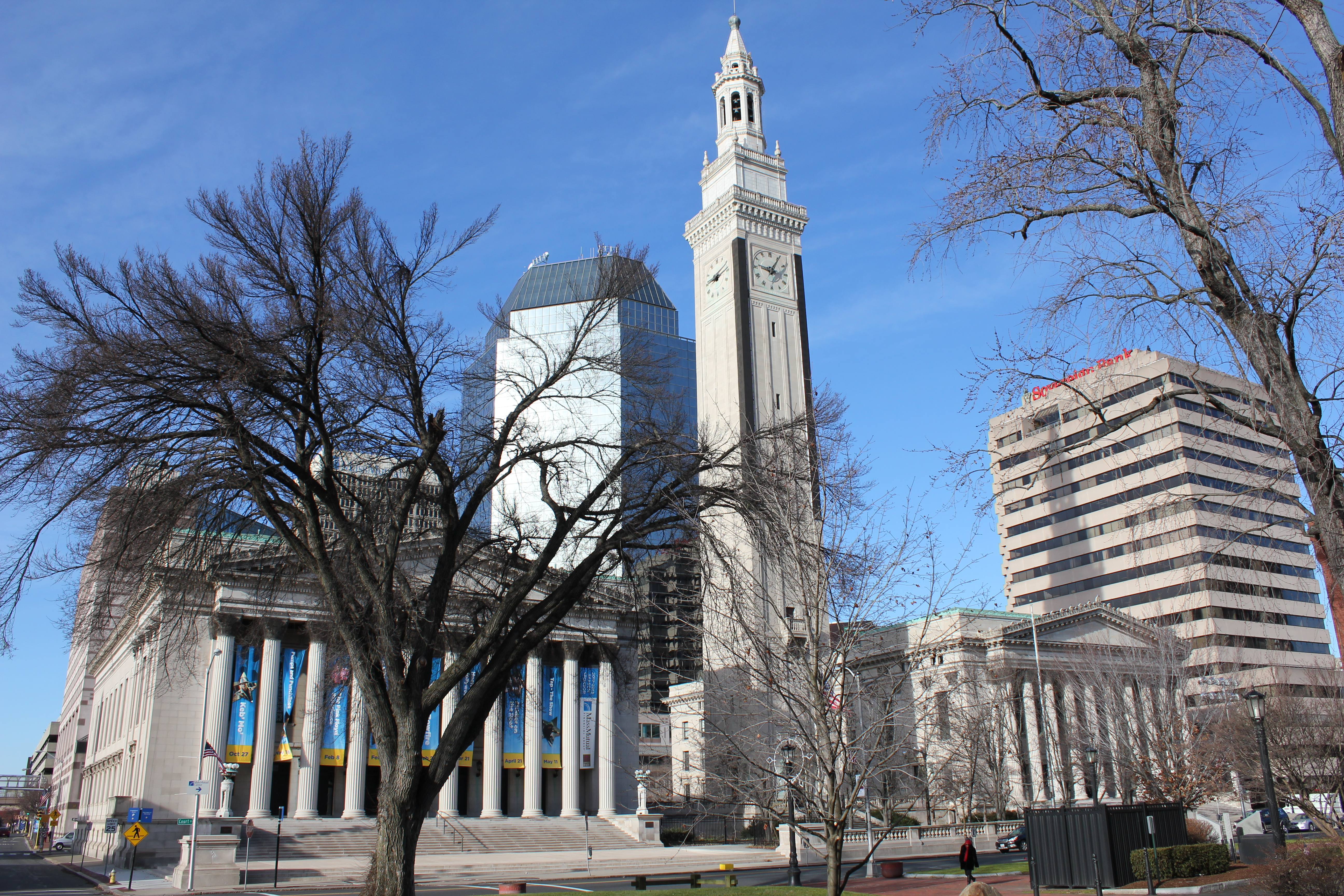 View of the Springfield Municipal Group in Springfield, Massachusetts, with Symphony Hall to the left and City Hall to the right of the clock tower.